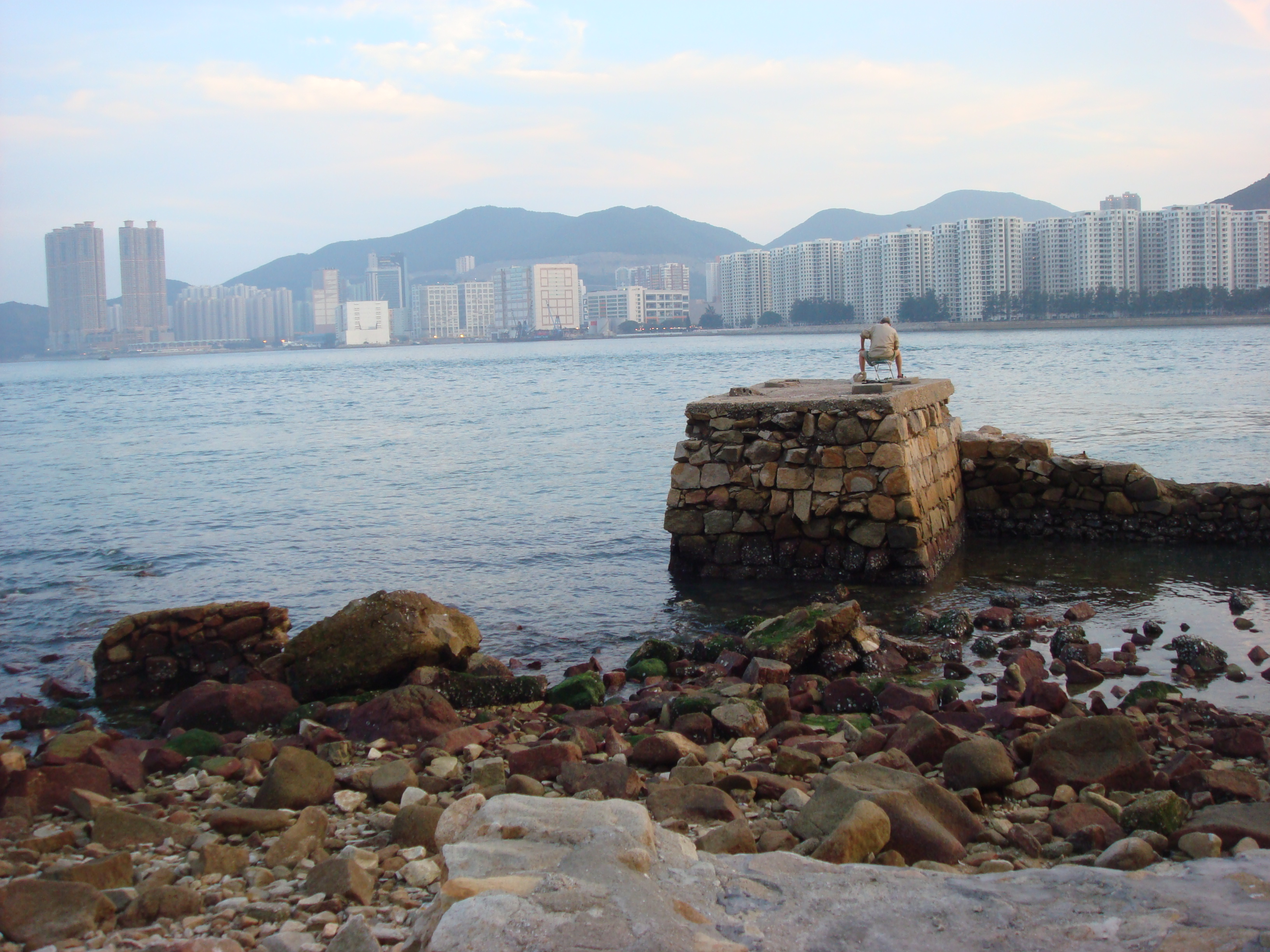 Ruins in Lei Yue Mun, Kowloon. Heng Fa Chuen is visible across the channel.